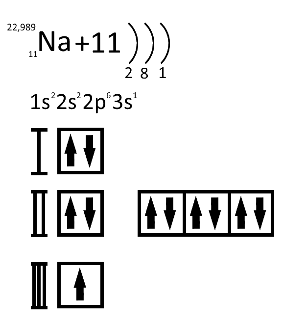 Electronic configuration of sodium